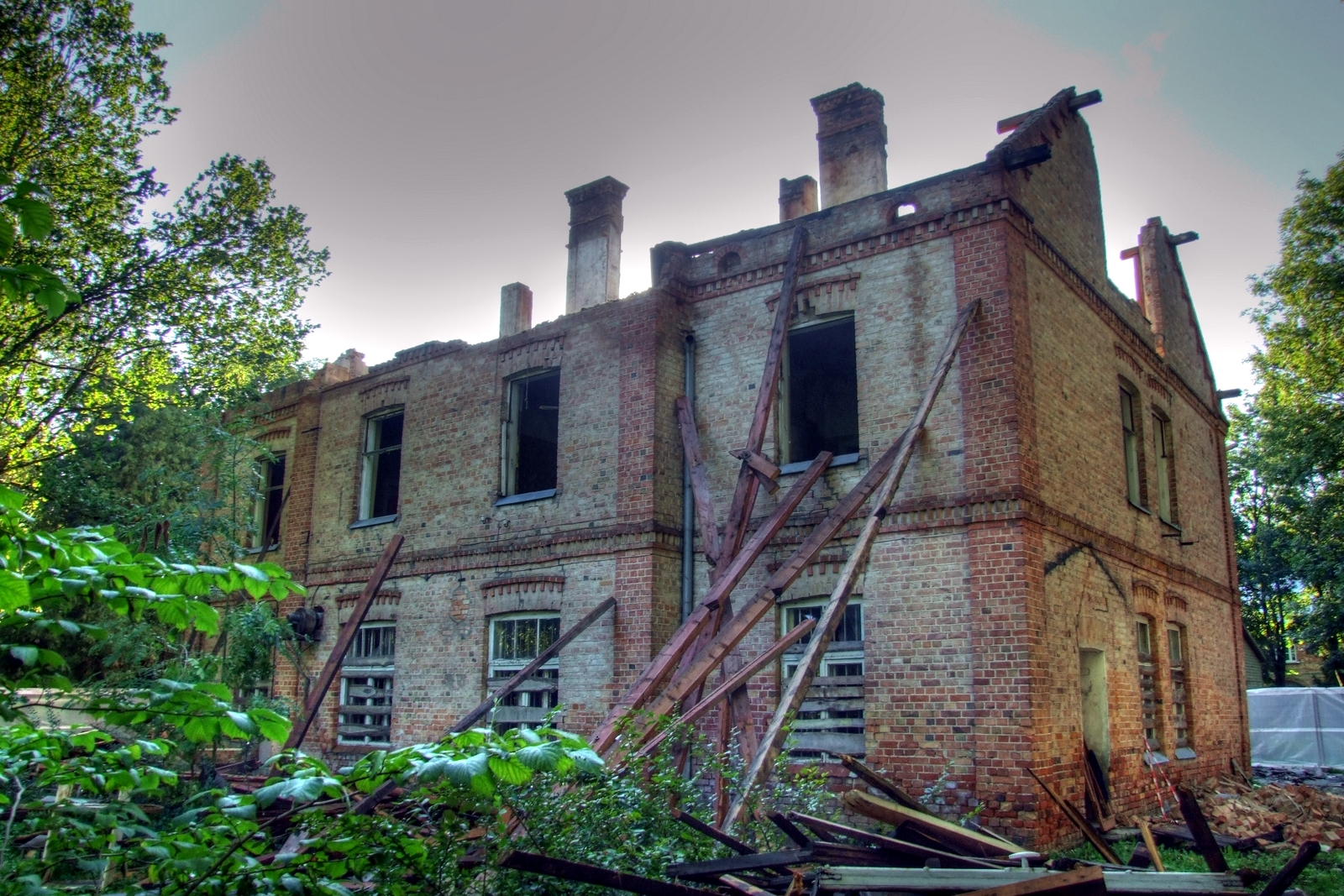 Gintermuizas vecā virtuve 2010. gada jūlijā noārdīšanas procesā